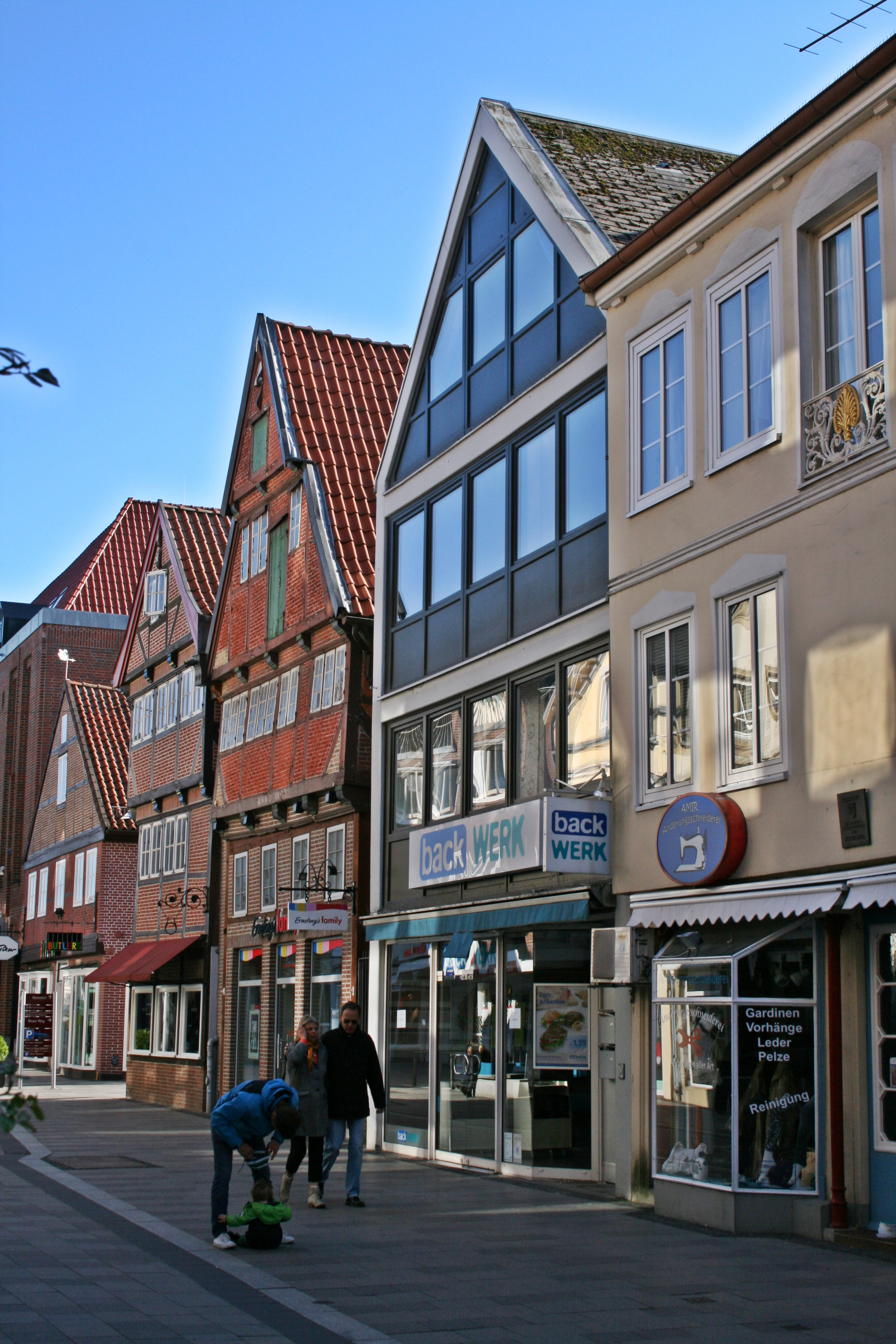 The building Sachsentor 48 in Hamburg-Bergedorf, with the Stolperstein for Ilse Betty Maria Dahl